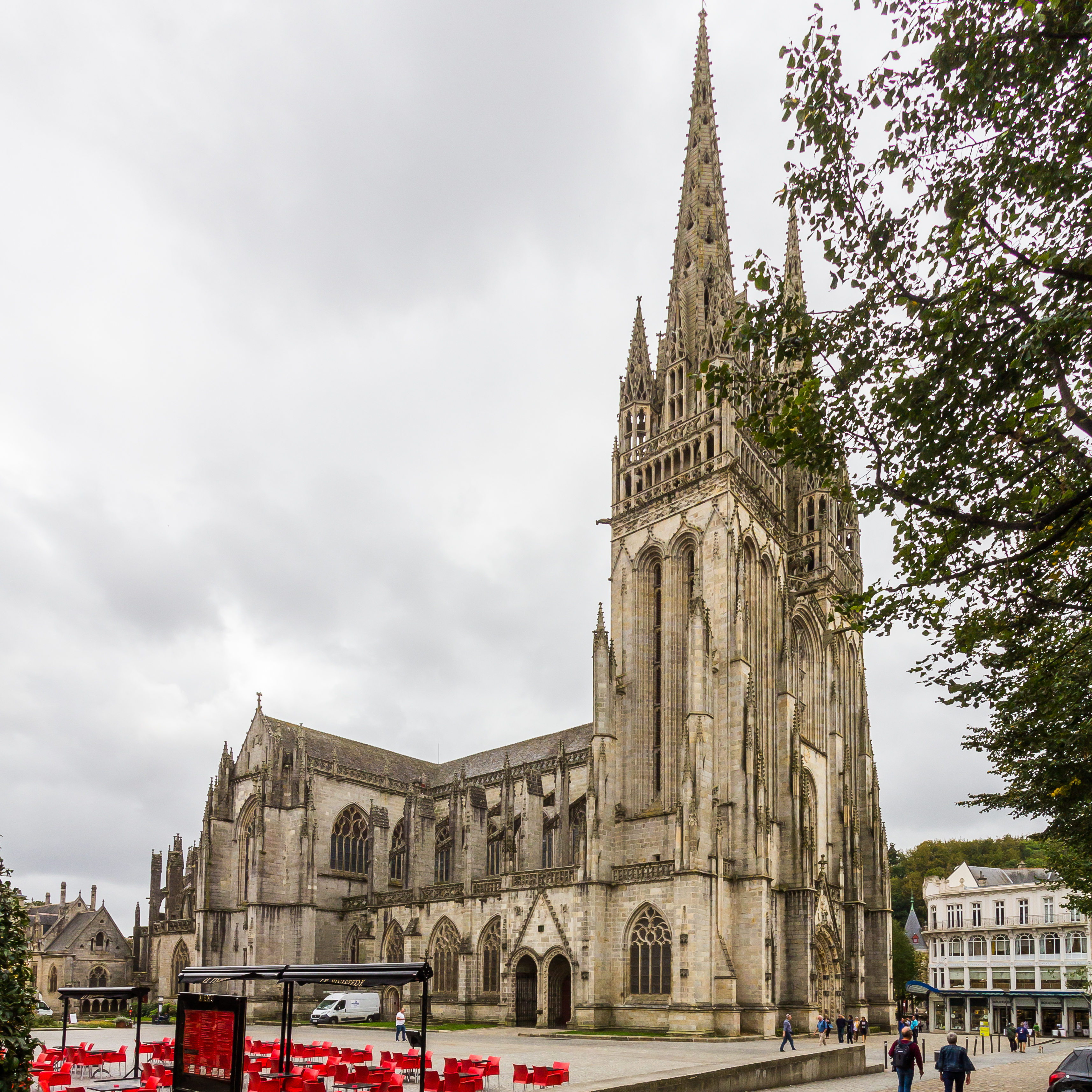 Exterior of Cathédrale Saint-Corentin de Quimper. View from north-west